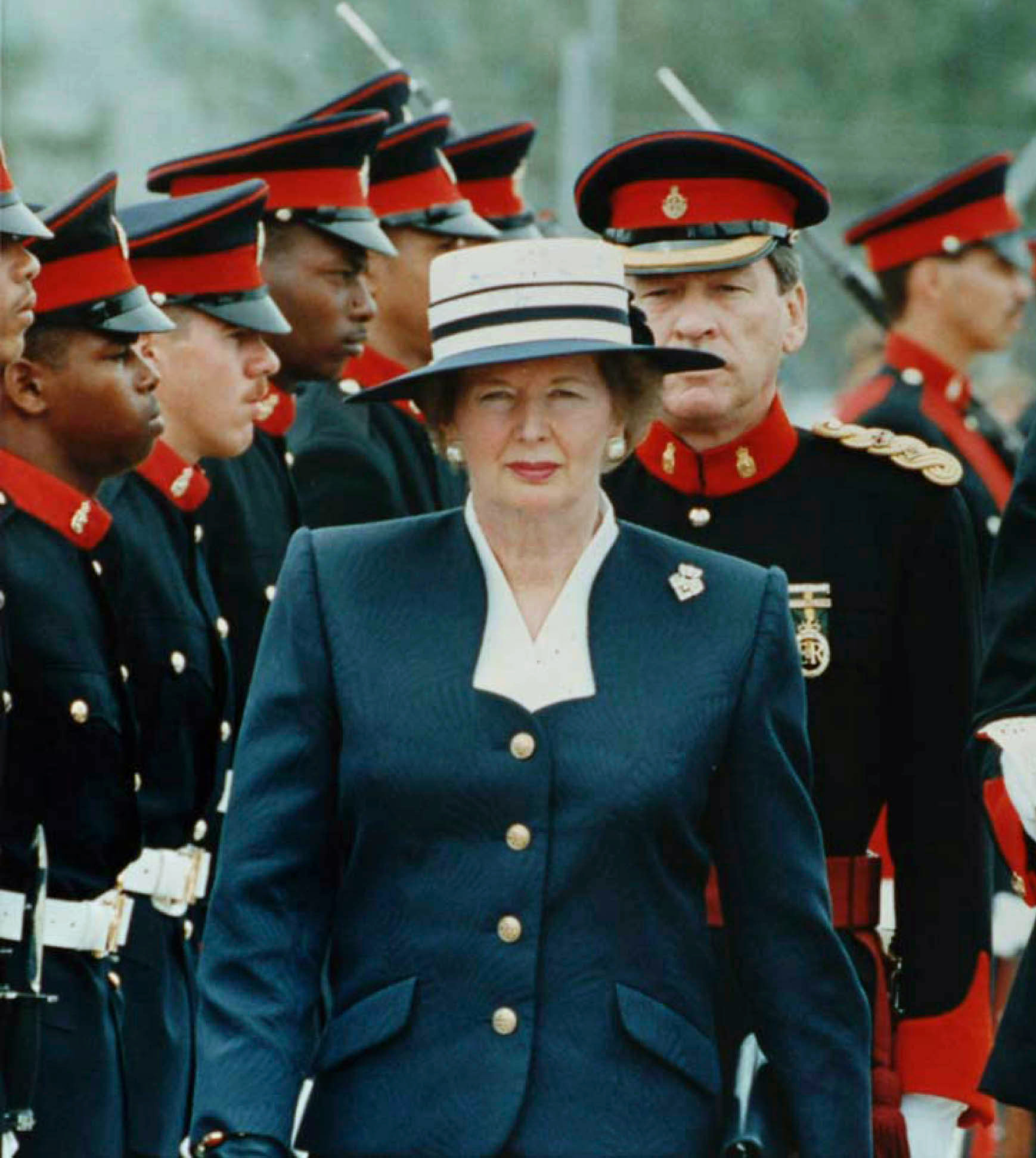 Margaret Thatcher reviewing Bermudian troops